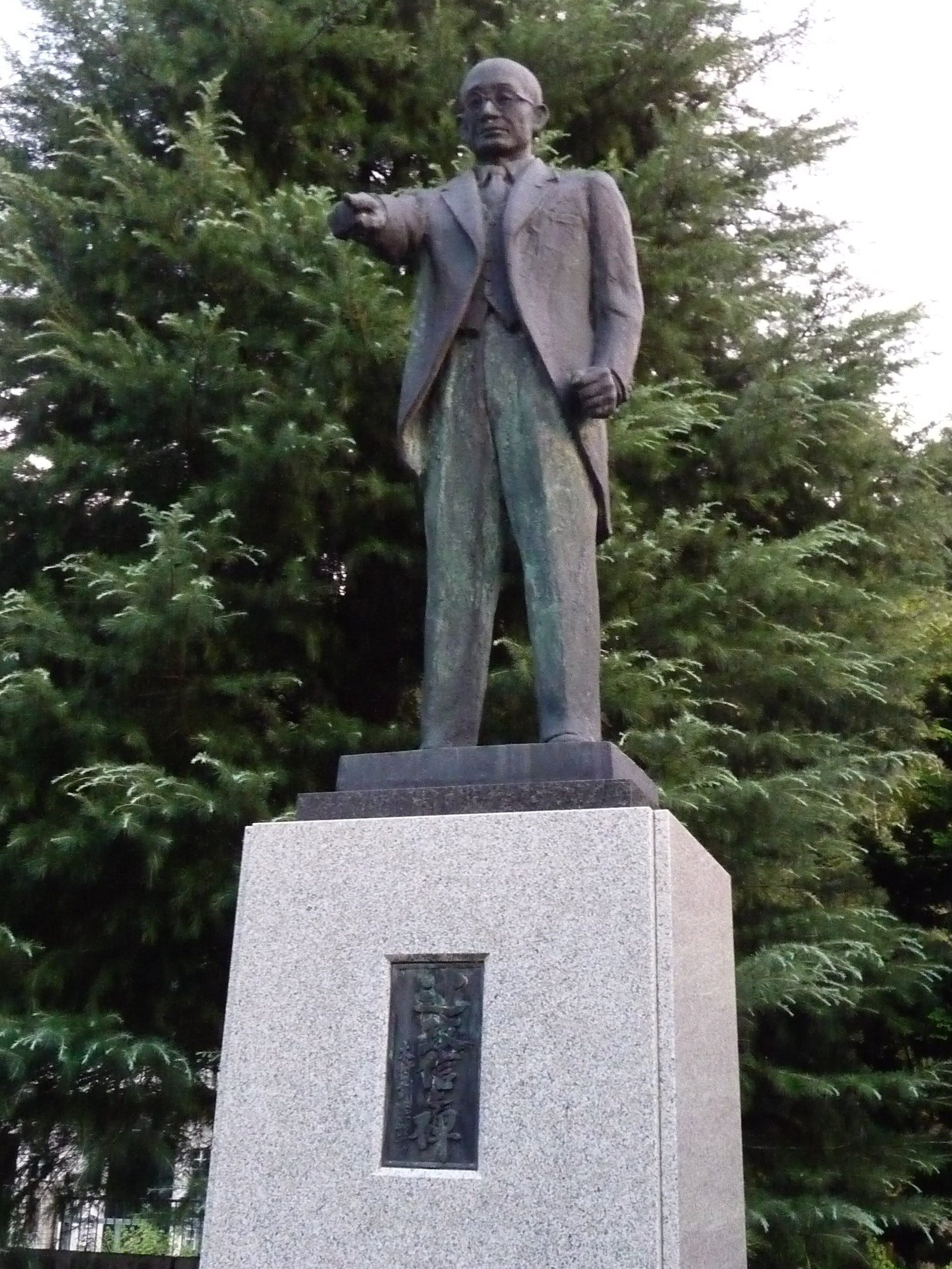 Memorial statue of Masanobu Tsuji at Aratani machi, Yamanaka onsen, Kaga, Ishikawa